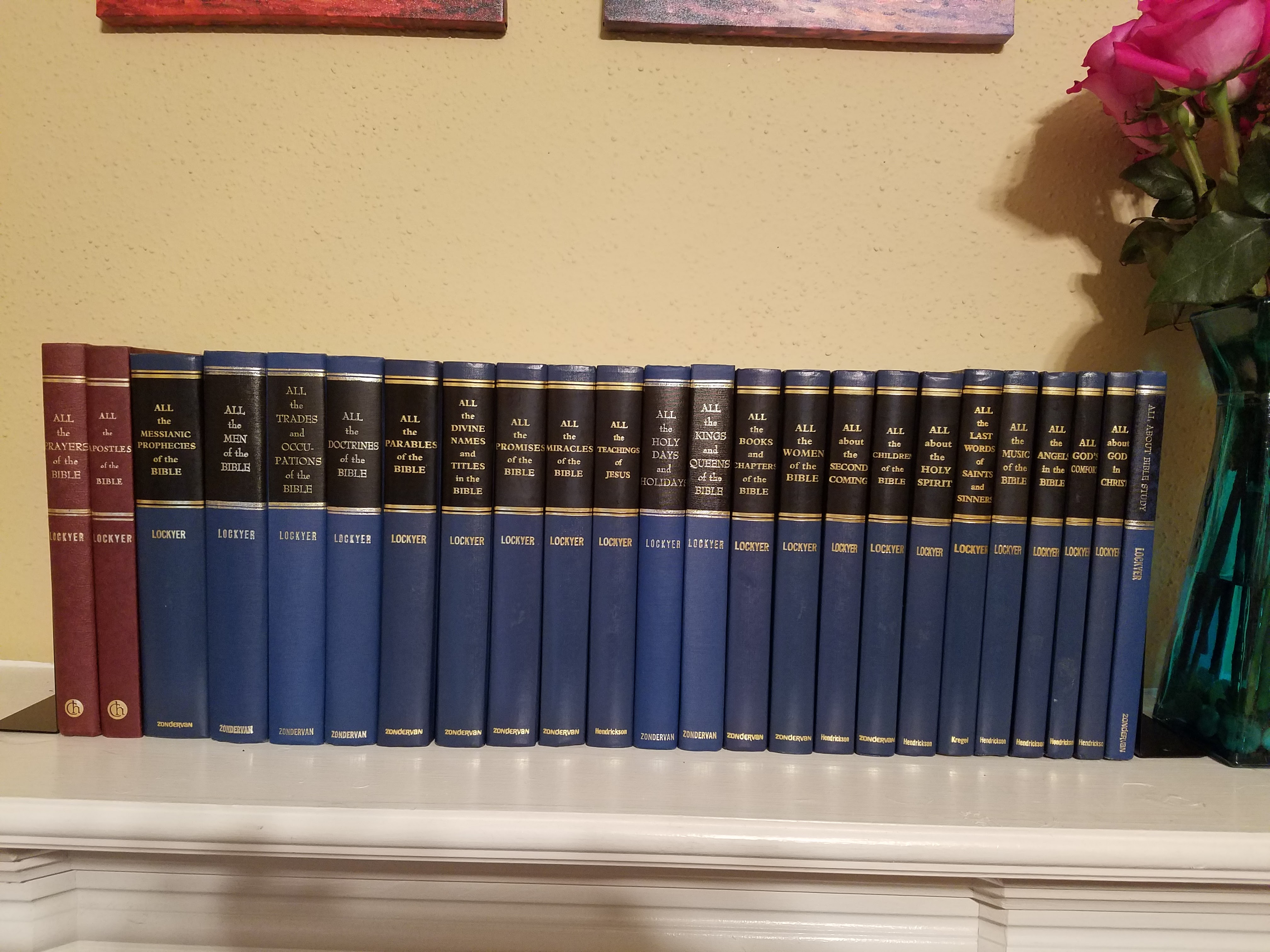 Photo of the 24 Hardcover Volumes of Lockyer's "All" Series.